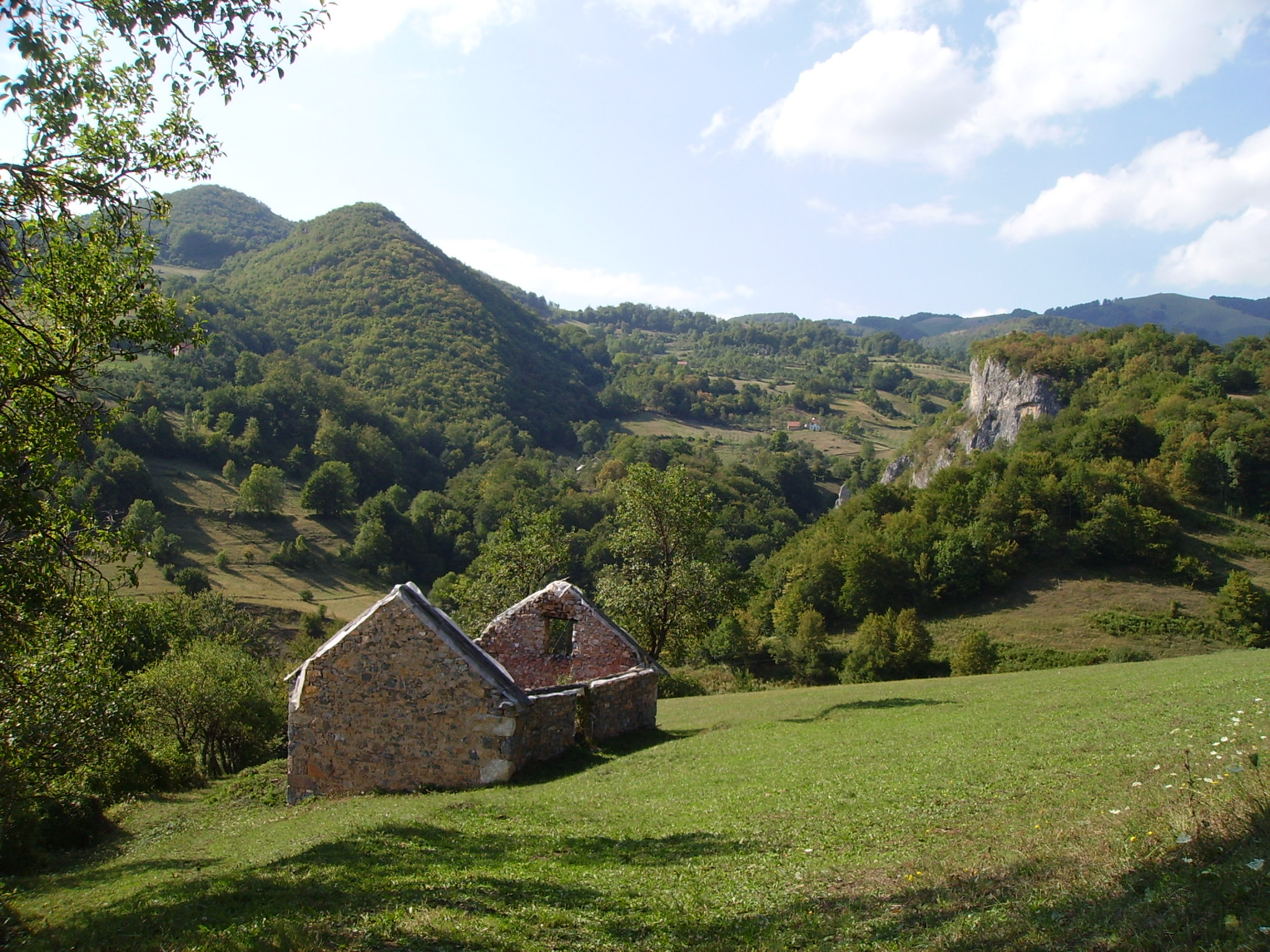 Landscape in the eastern Dimitor mountains near Medna, Republic of Srpska, BiH.